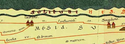 Taurunum (Zemun) and Singidunum (Belgrade) on Tabula Peutingeriana.